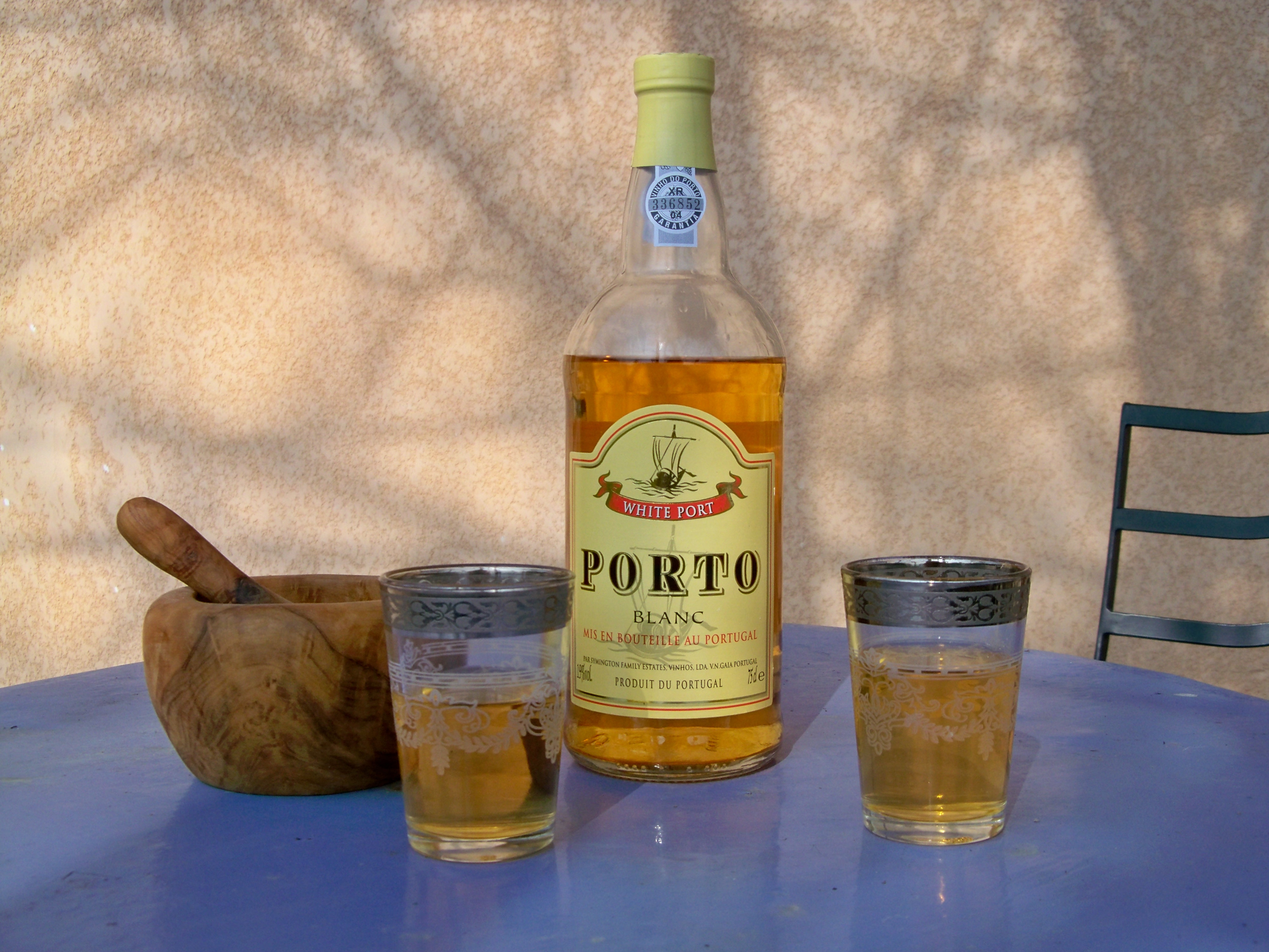 bottle of white port